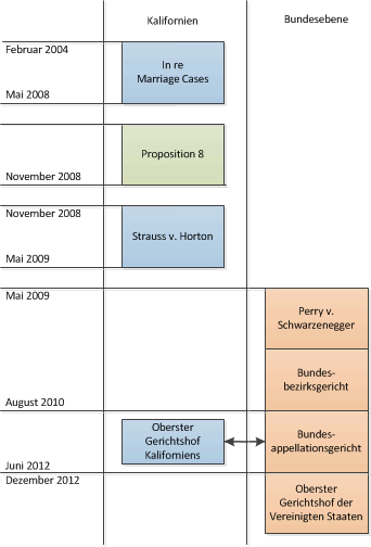 The flow of court cases around Perry v. Schwarzenegger